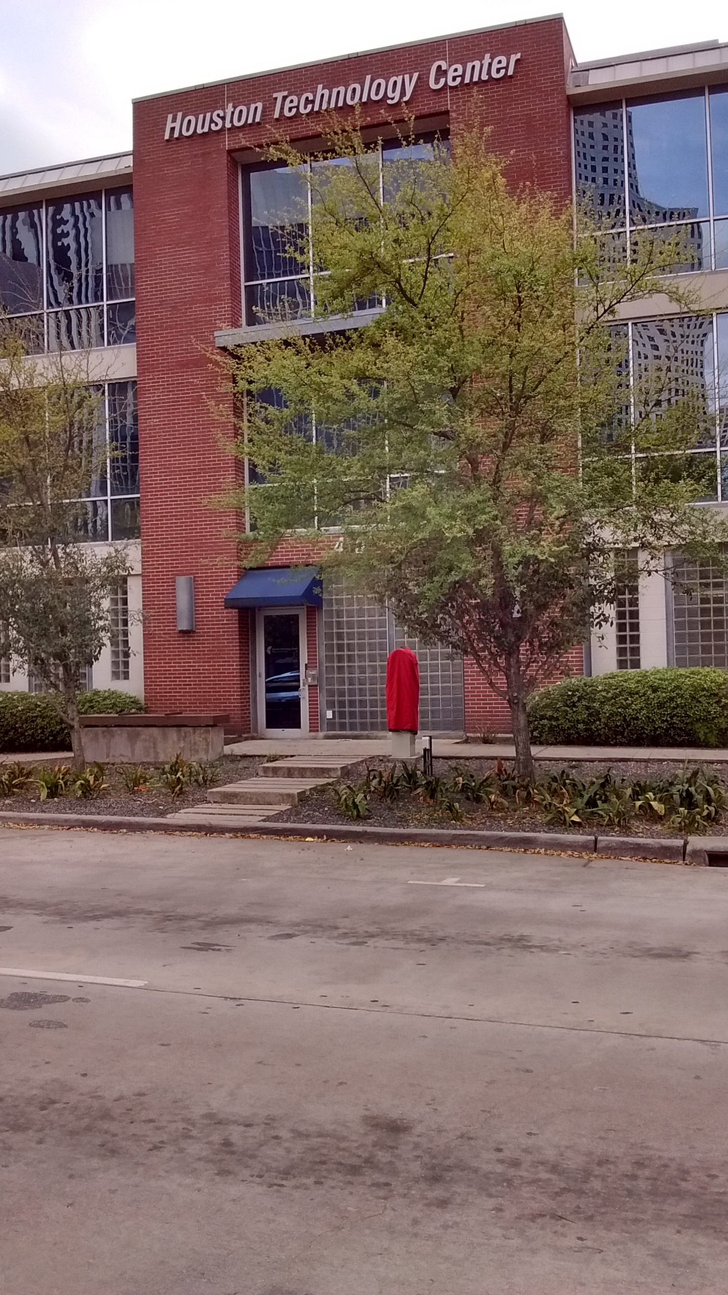 This is a photo of the entrance to the Houston Technology Center on Pierce Street in the Midtown neighborhood of Houston, Texas.